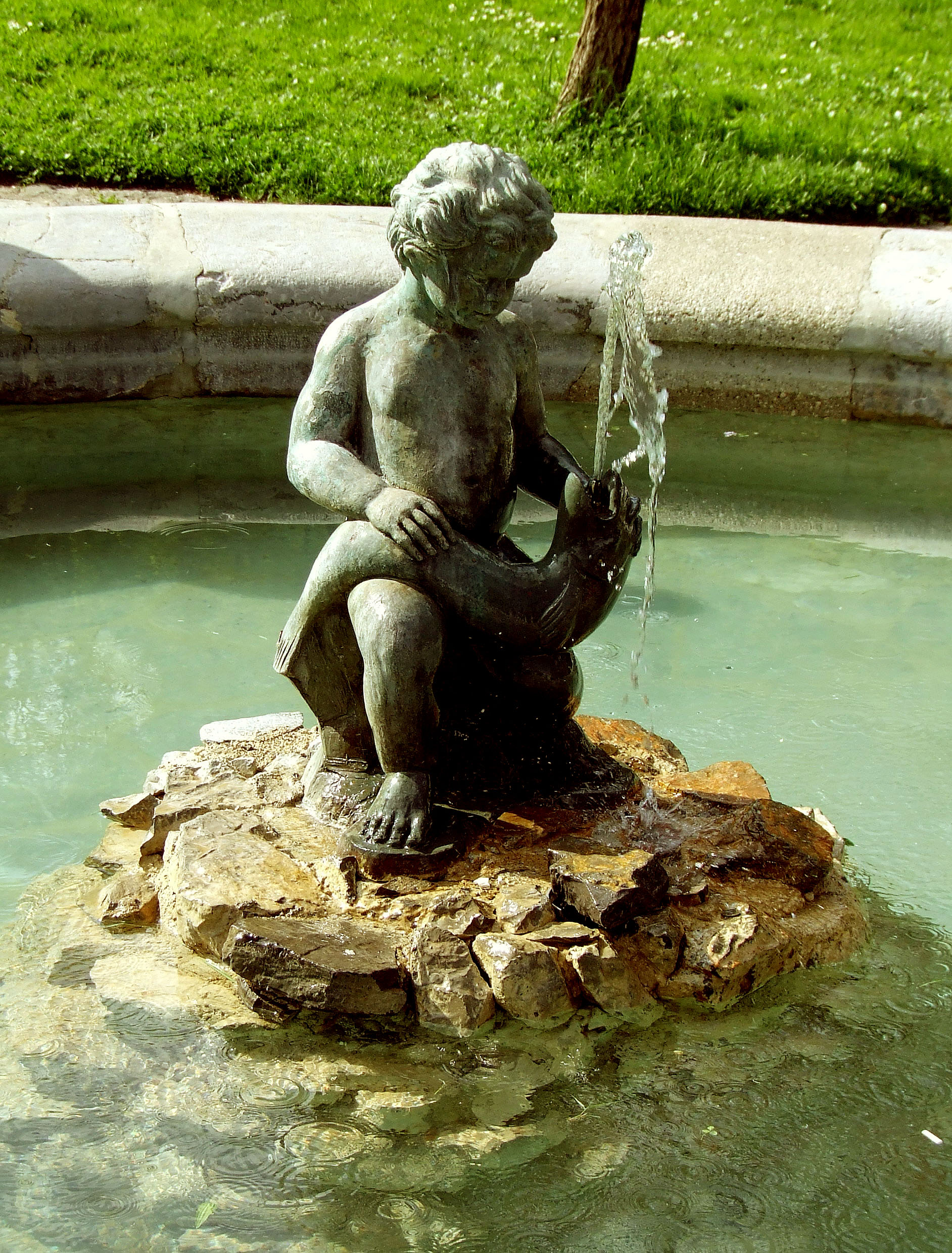 Boy with a Fish. Tivoli City Park, Ljubljana. The sculpture in a replica (1989) of a 1870 fountain.